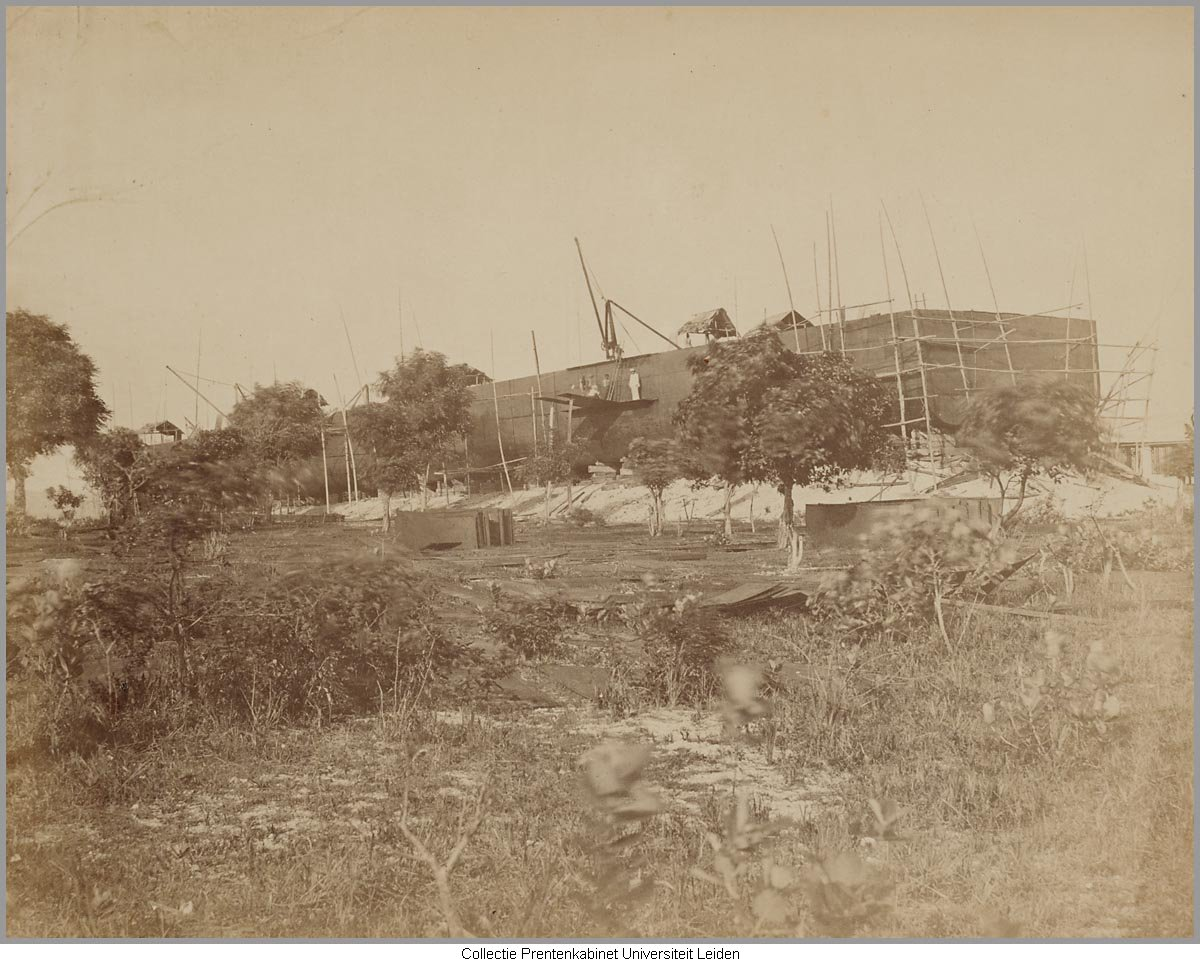 Batavia Dock was a floating dry dock built in Scotland for the Nederlands Indische Droogdok Maatschappij (NIDM). She was assembled on a slipway at Amsterdam Island (now Indonesia) and launched in January 1877. She is recognized by her 'ship' form.